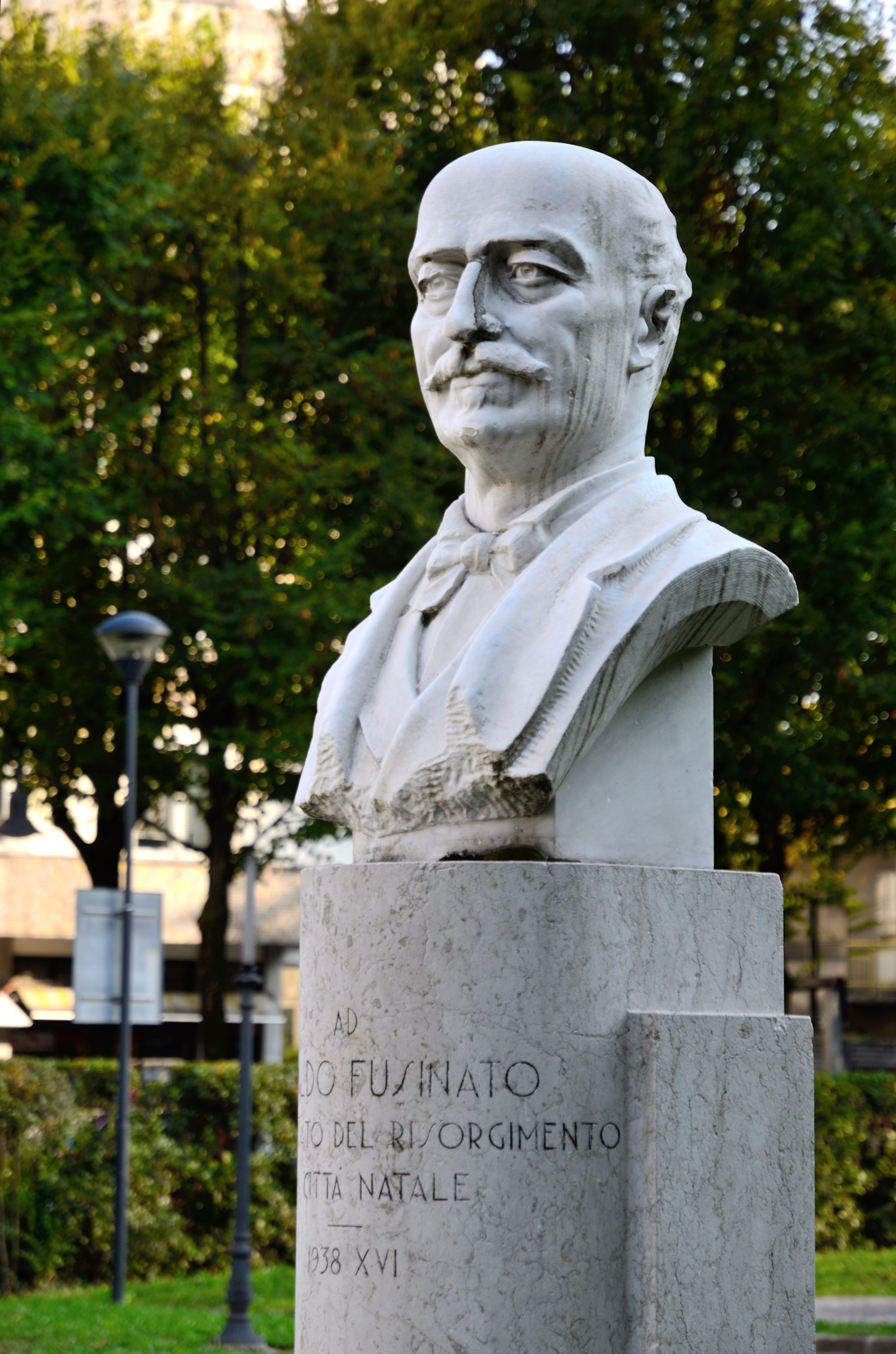 This is a photo of a monument which is part of cultural heritage of Italy.